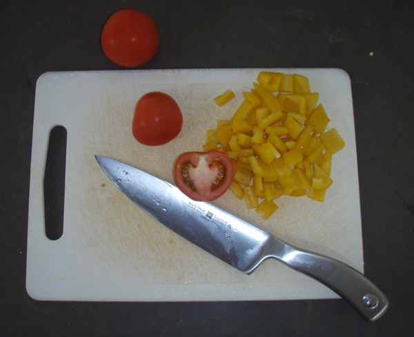 Plastic cutting board with slices of tomato (Solanum lycopersicum) and bell pepper (Capsicum annuum)